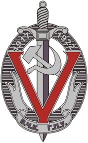 HCP (KGB) of the USSR, a badge of honor to the 5th anniversary of the Cheka-GPU